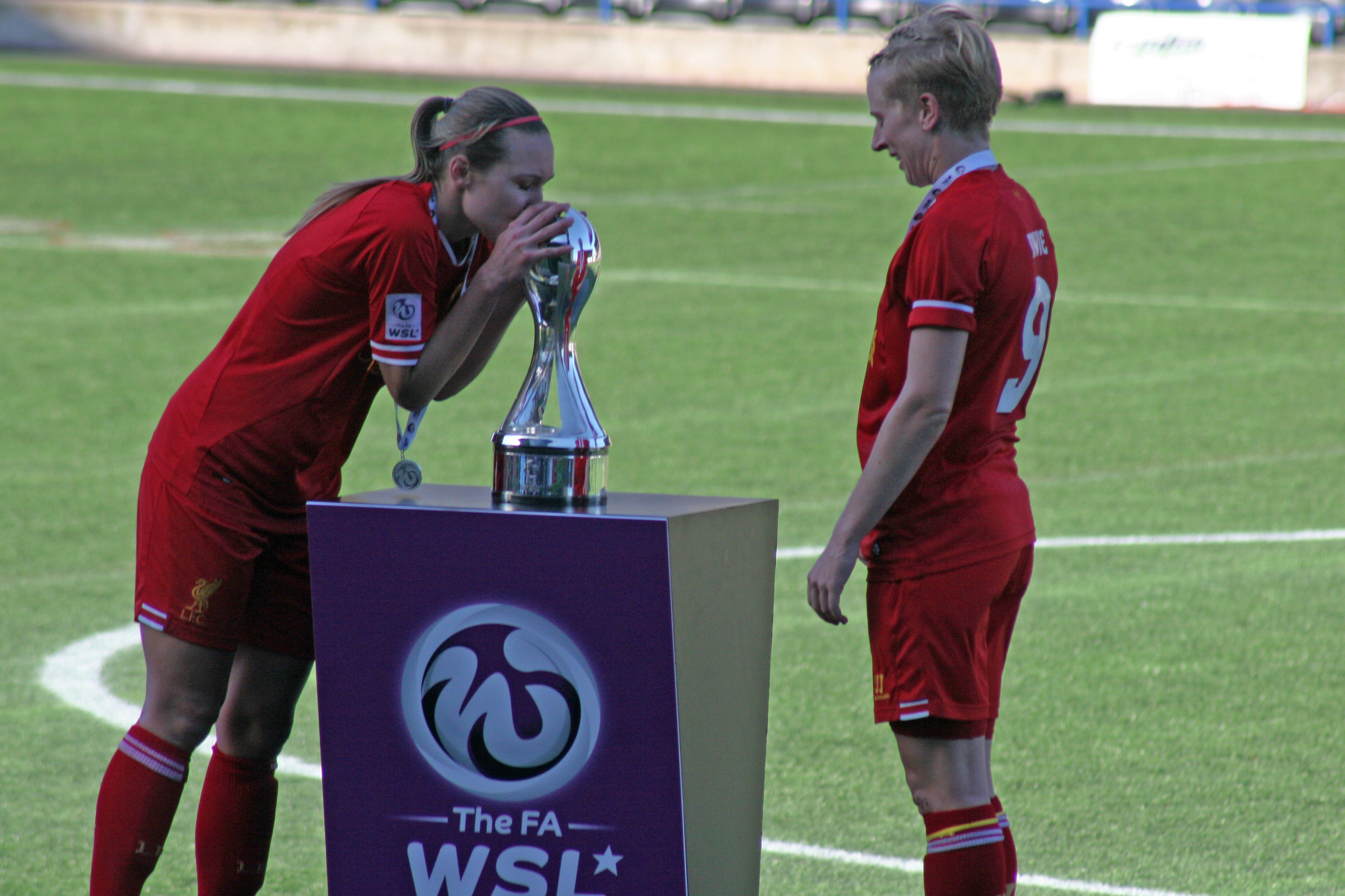 Liverpool L.F.C. - 2013 FA WSL Championship celebration